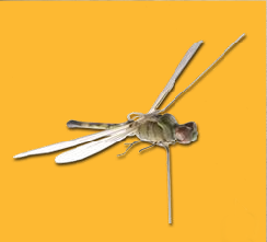 The "Insectothopter", an micro unmanned aerial vehicle developed by the CIA for espionage purposes in the 1970s